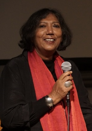 Madhusree Dutta 2016